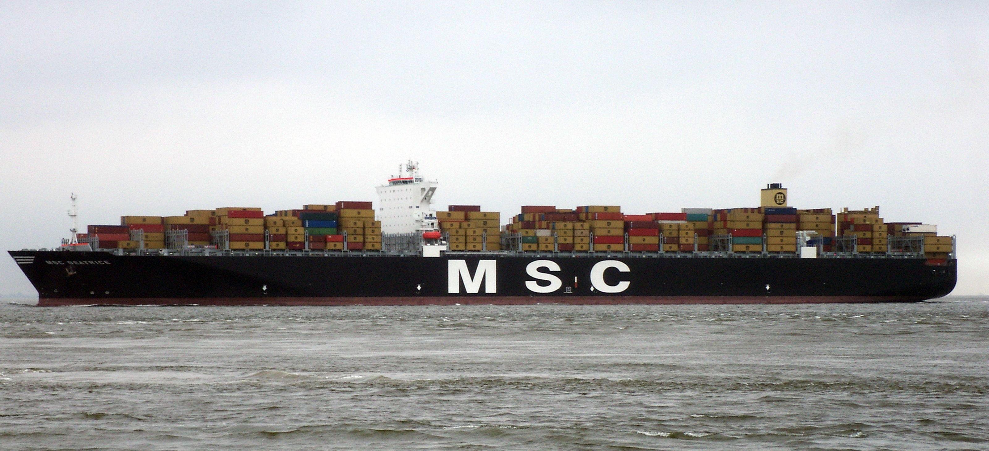 The M/V MSC Beatrice. A 14,000 TEU container vessel